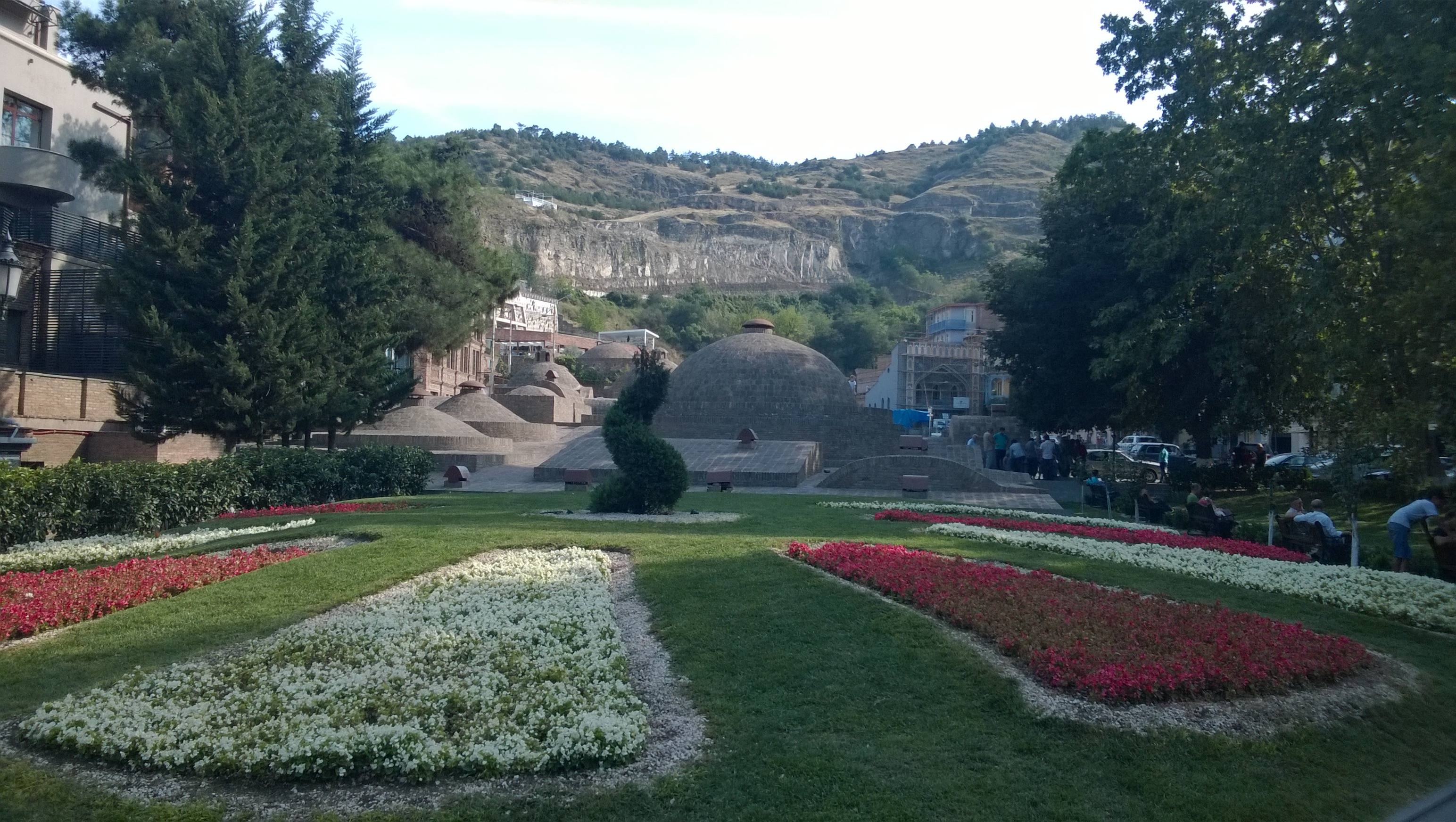 ჰეიდარ ალიევის სახელობის სკვერი